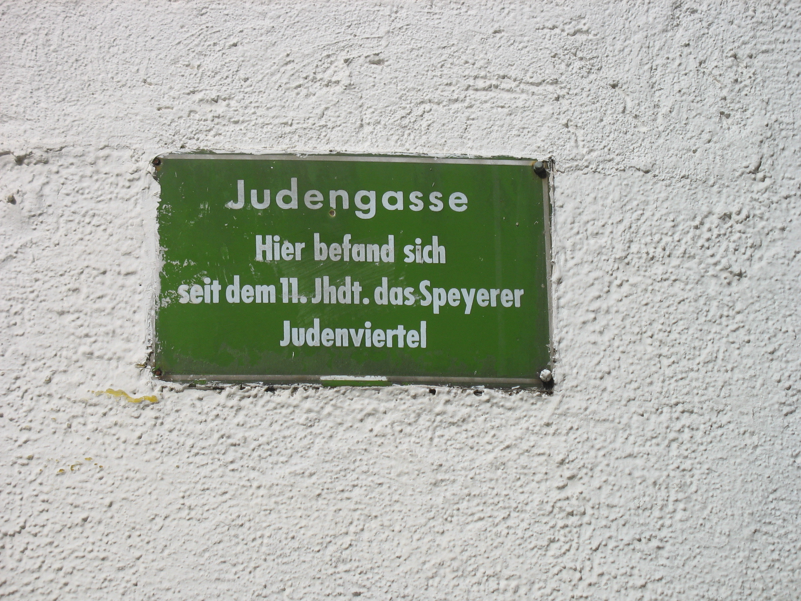 Speyer (GERMANY) The Jewish street